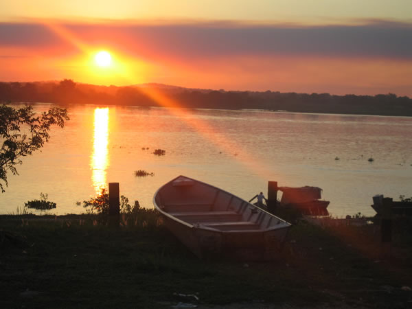 bote